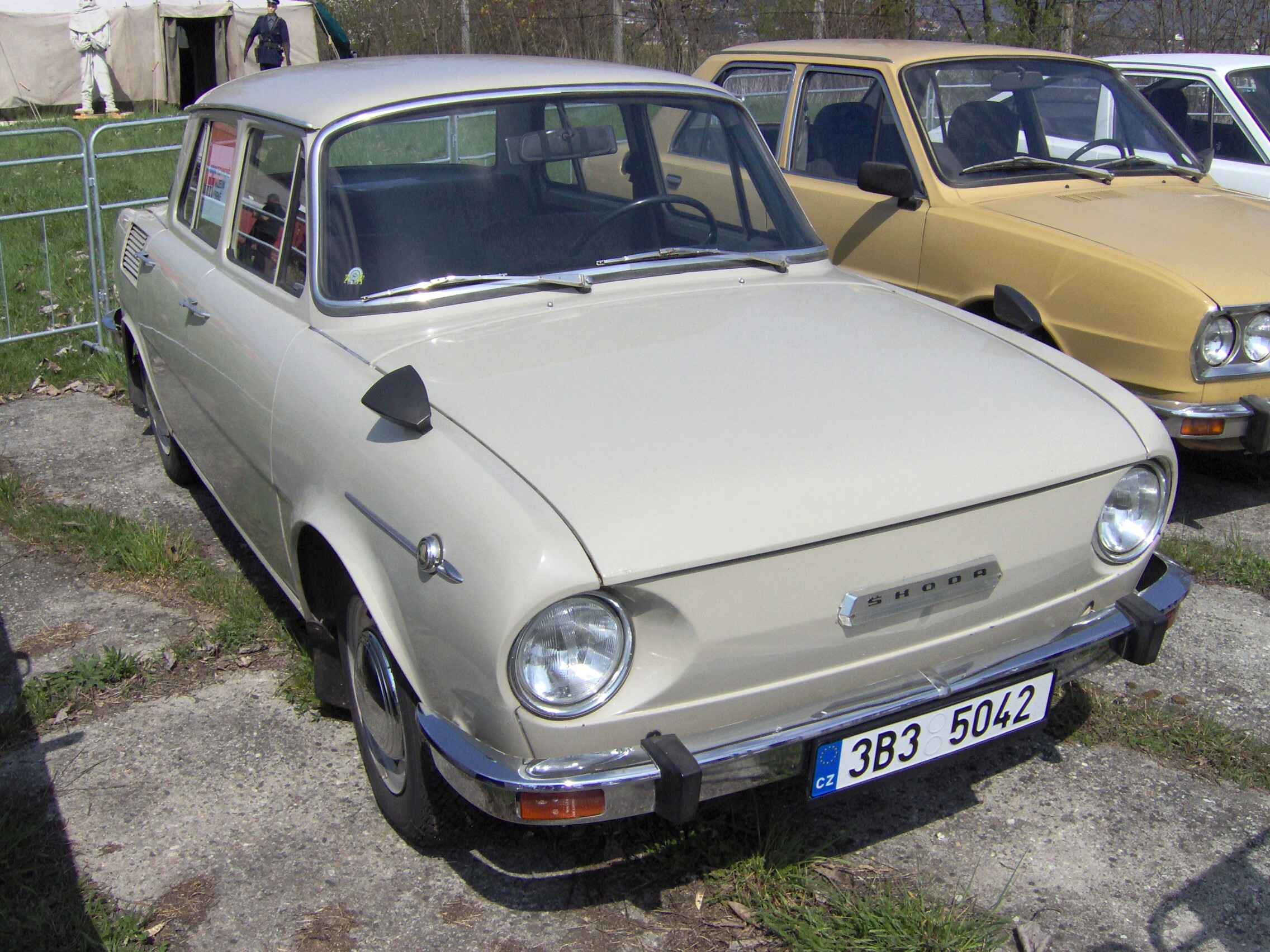 Škoda 100 (made in 1971) in Brno, Czech Republic